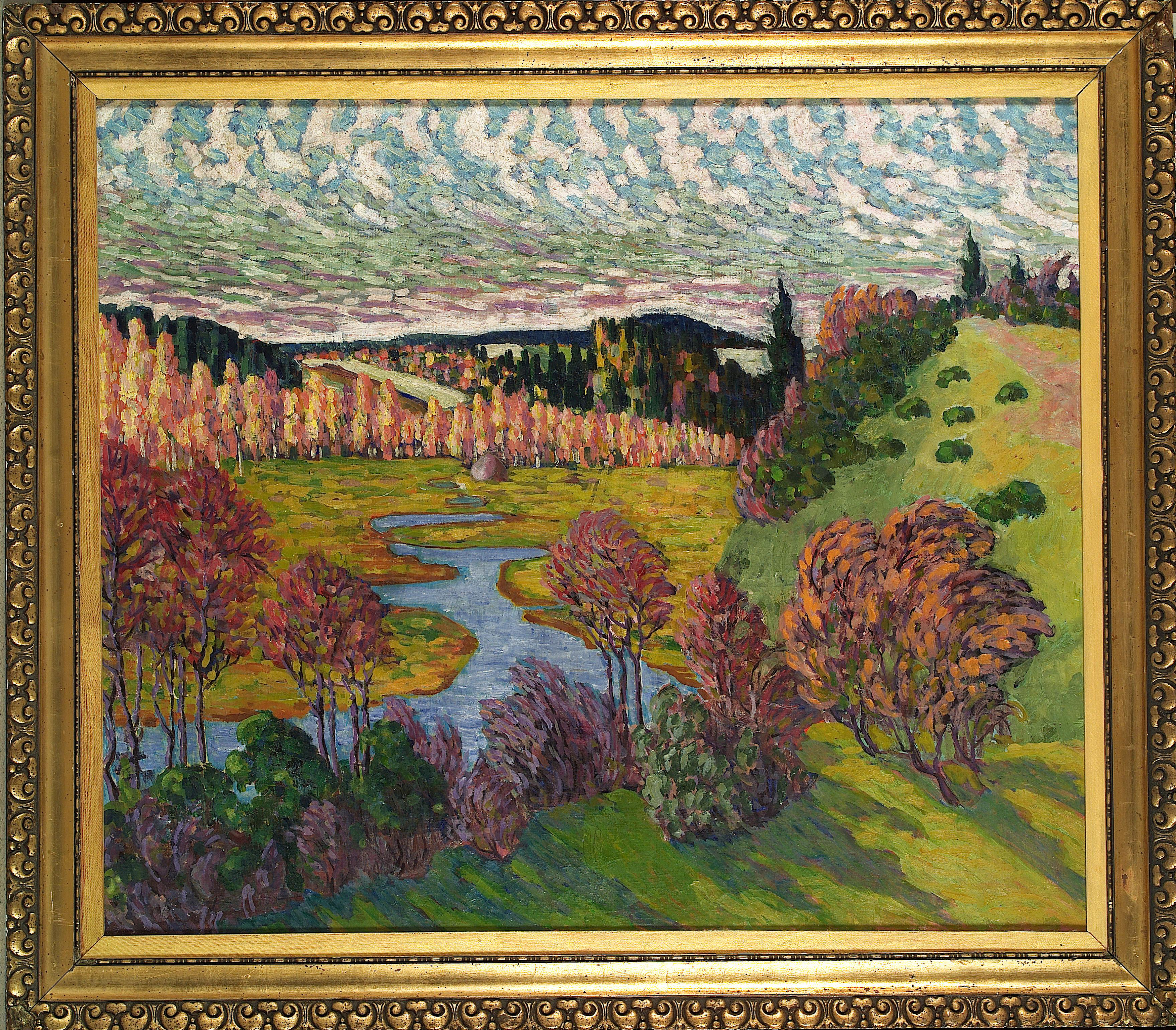 Konrad Mägi "Autumn landscape", 1915-1917, oil on canvas, 93,8 x 111,8